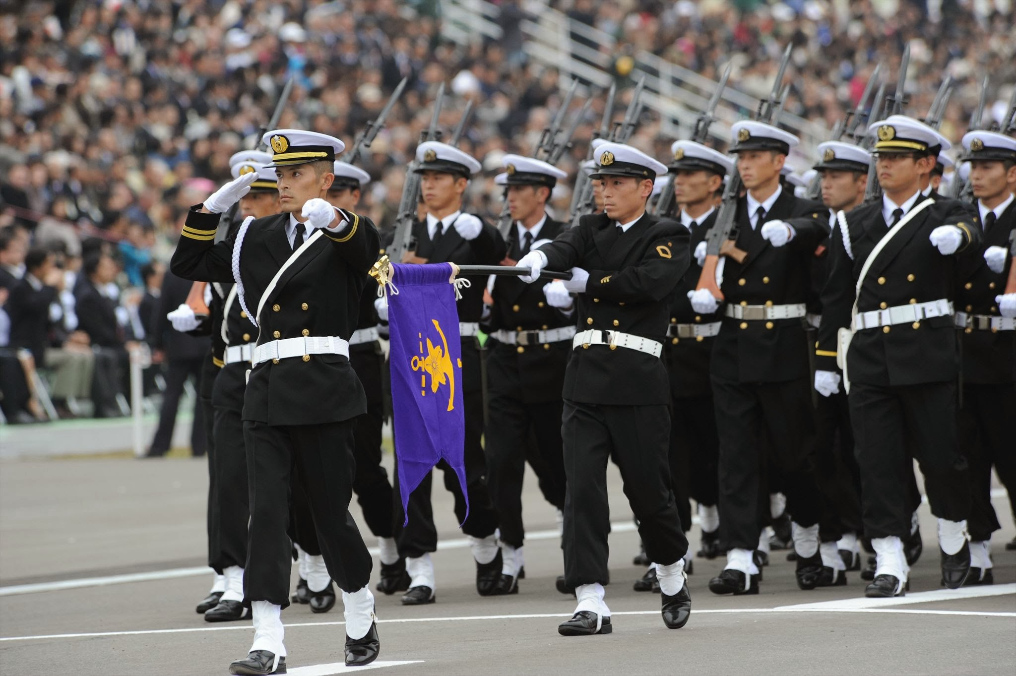 Title 11_09_011_R.JPG Album 自衛隊記念日 観閲式(Parade of Self-Defense Force) 平成22年度自衛隊記念日 観閲式(Parade of Self-Defense Force)